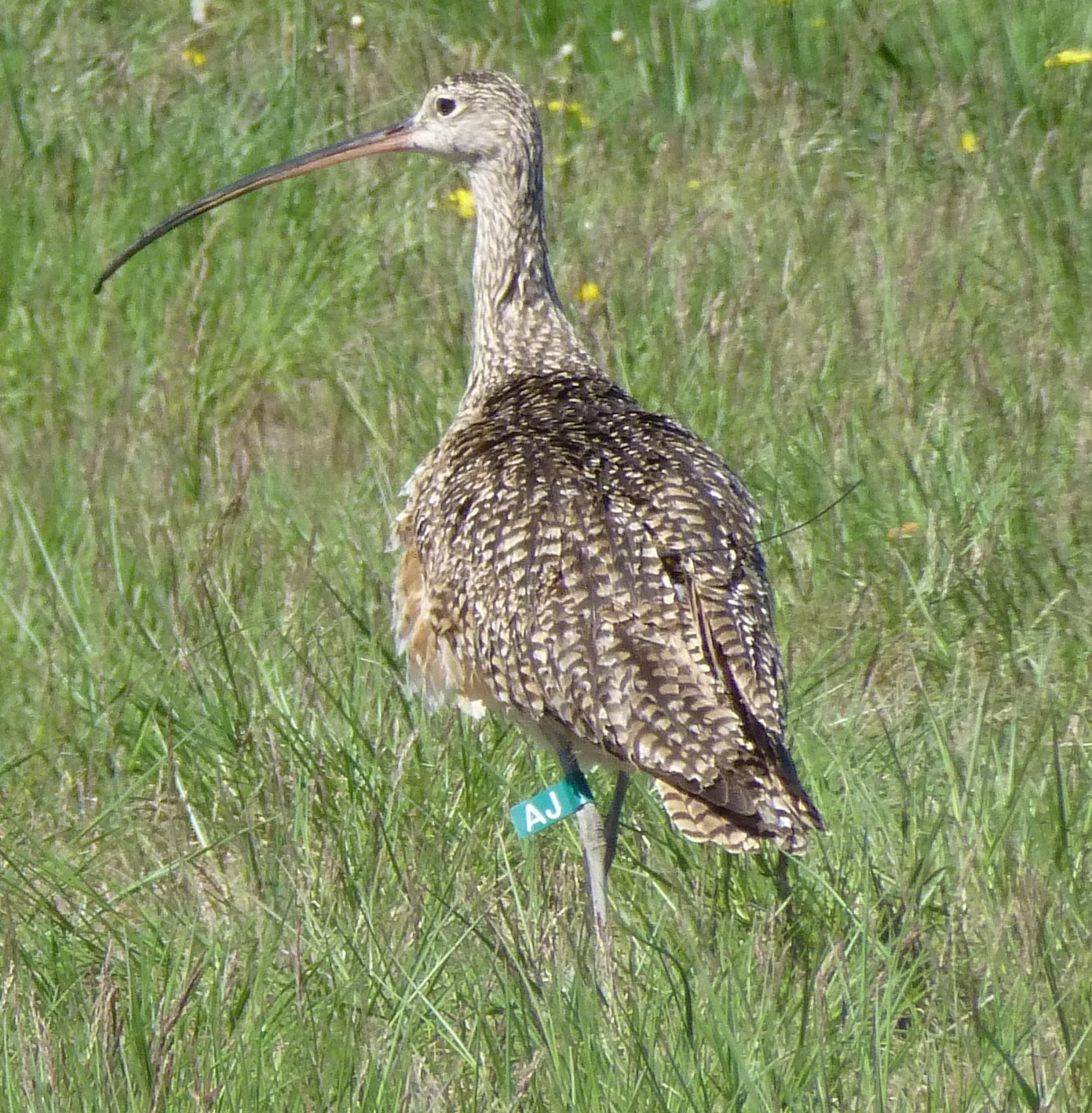 Though it's easier to spot the leg band, a satellite transmitter's antenna can be seen protruding from the back of this female long-billed curlew. Credit: Eric Cole / USFWS